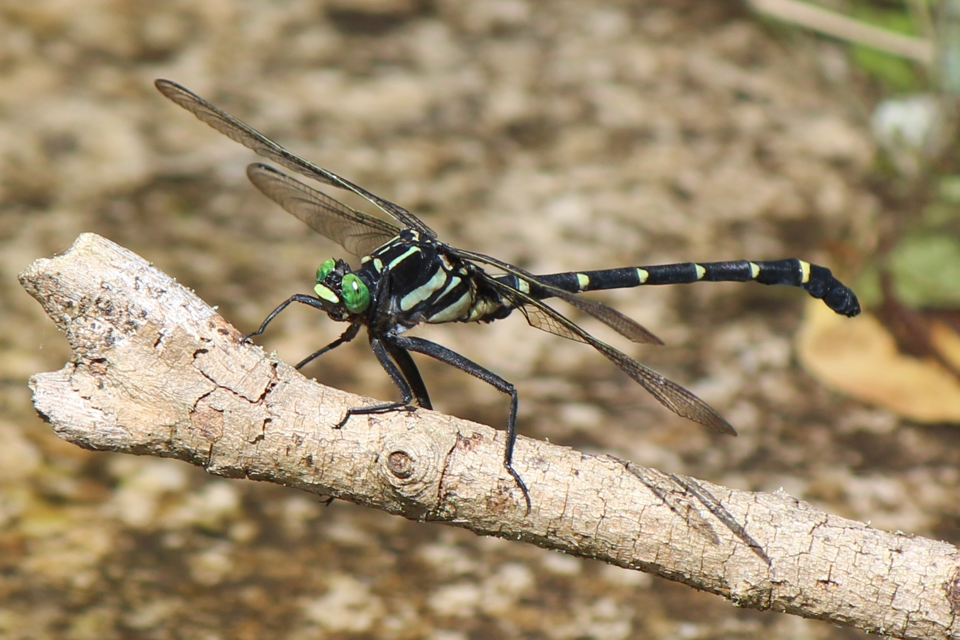 Sieboldius albardae in Japan